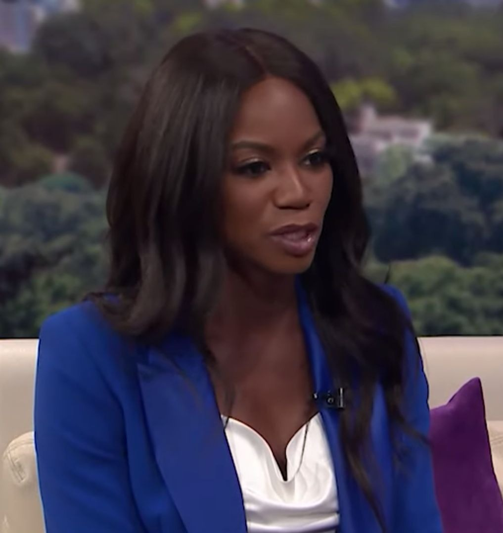 Taja V. Simpson Talks “The Oval” On BET